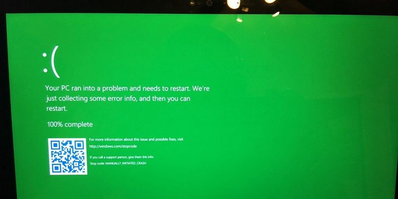 Green screen of death on preview versions of Windows 10